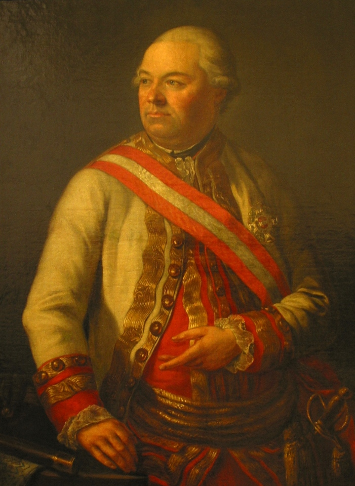 Portrait of Andreas Hadik von Futak (1711-1790)